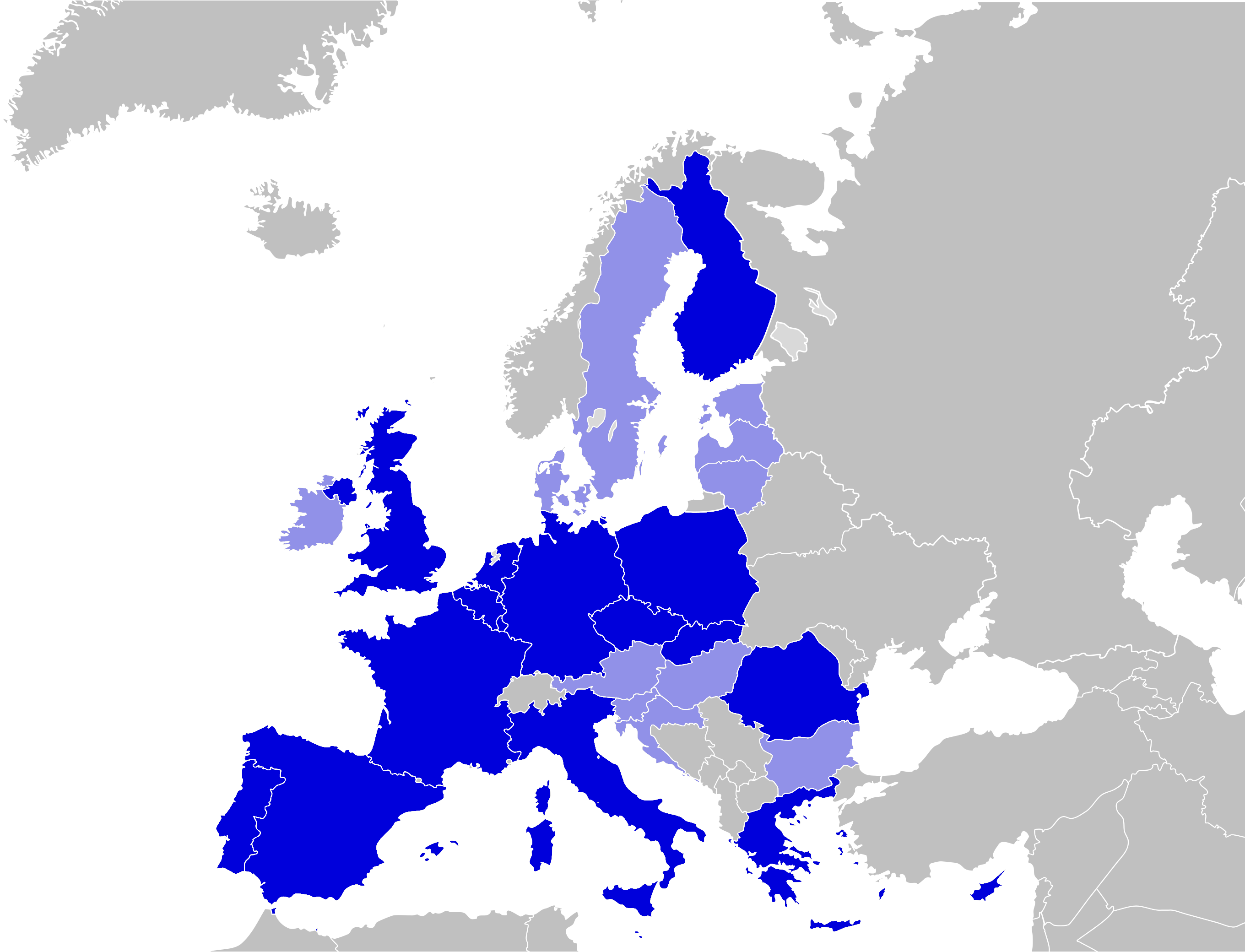 Map of the member states of Finabel blue: member states of Finabel light blue: Other member states of the European Union